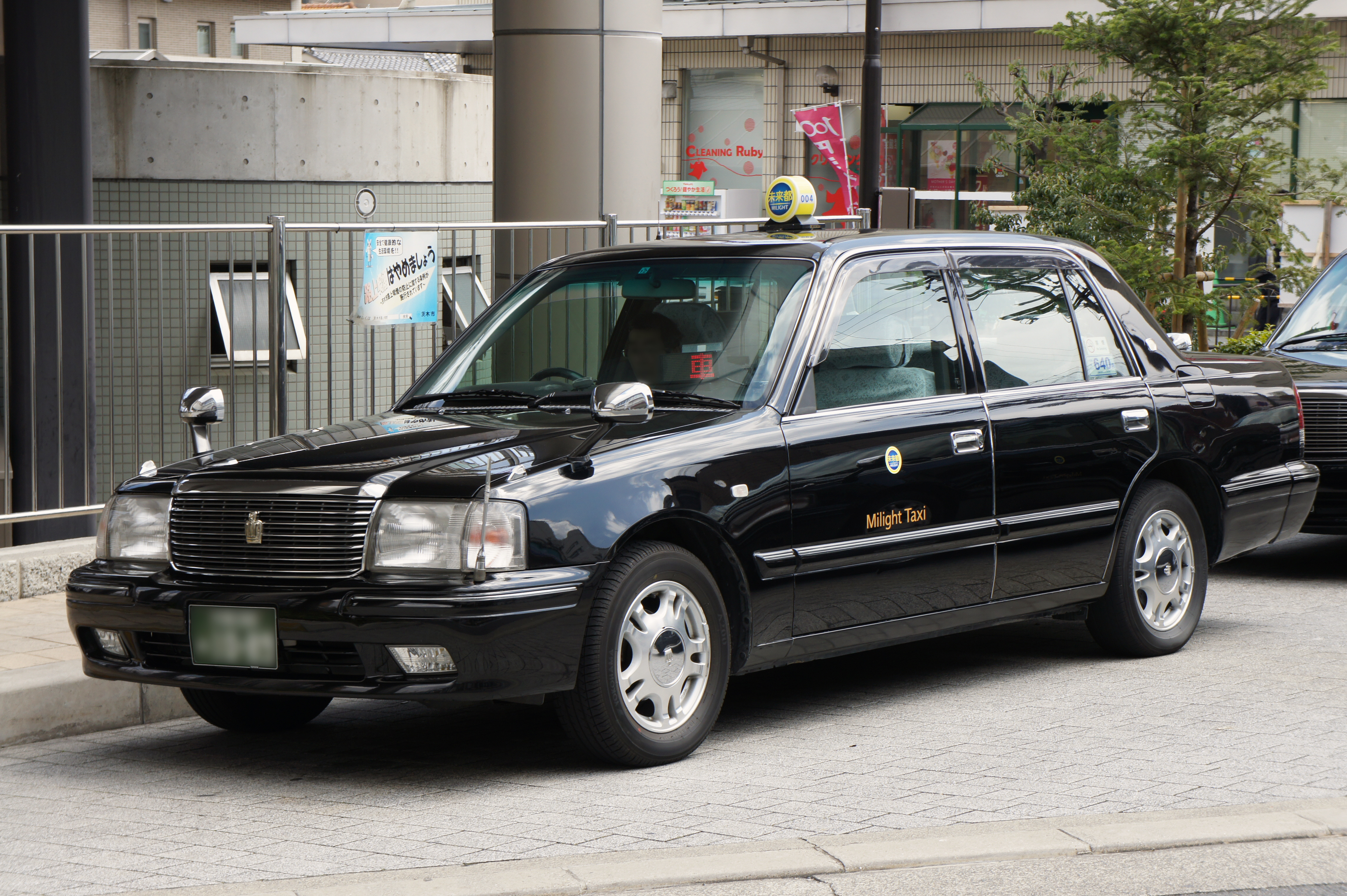 MILIGHT TAXI / Model: Isuzu Gala / Place: 1 Ekimae Ibaraki-City Osaka Japan.